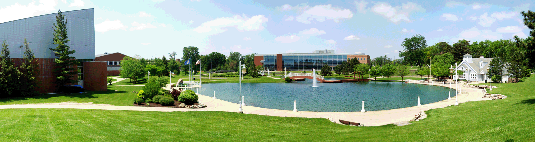 Eastern Michigan University Park buildings in the image include: The Student Center, Big Bob's Lakehouse, Bown field house, and Rec/IM